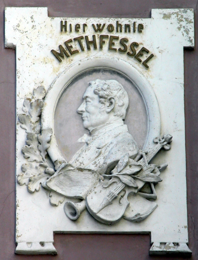 Brunswick, Germany: Albert Gottlieb Methfessel.